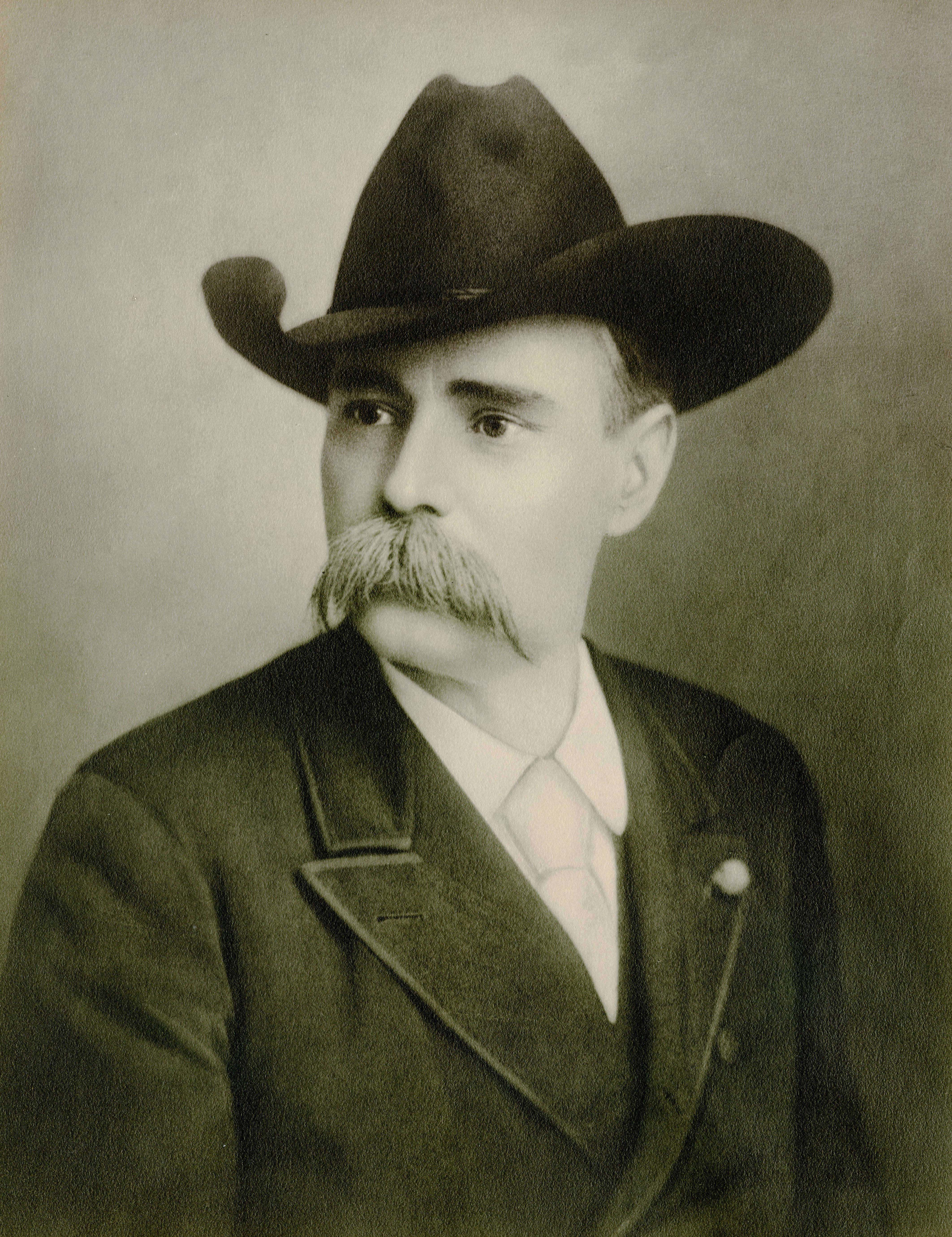 Col. Prentiss Ingraham seated and wearing a hat.